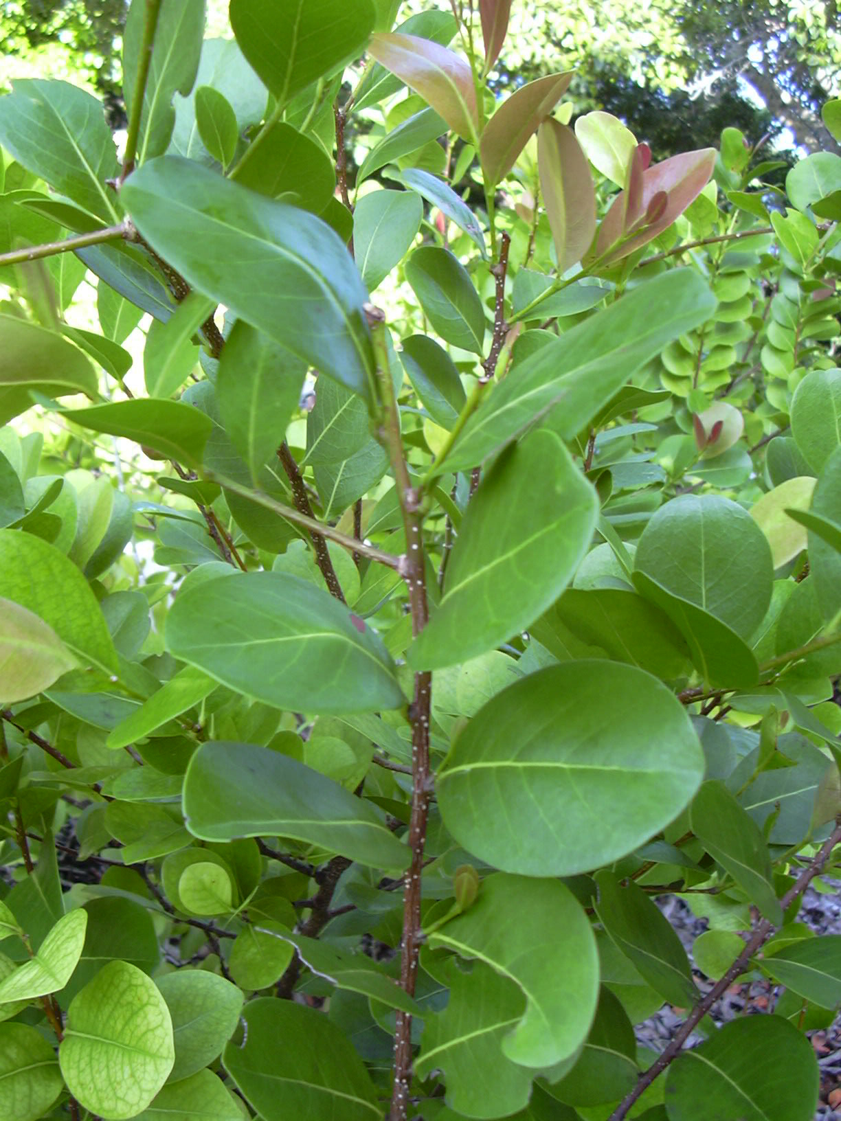 Chrysobalanus icaco (leaves). Location: Florida, Deering Park